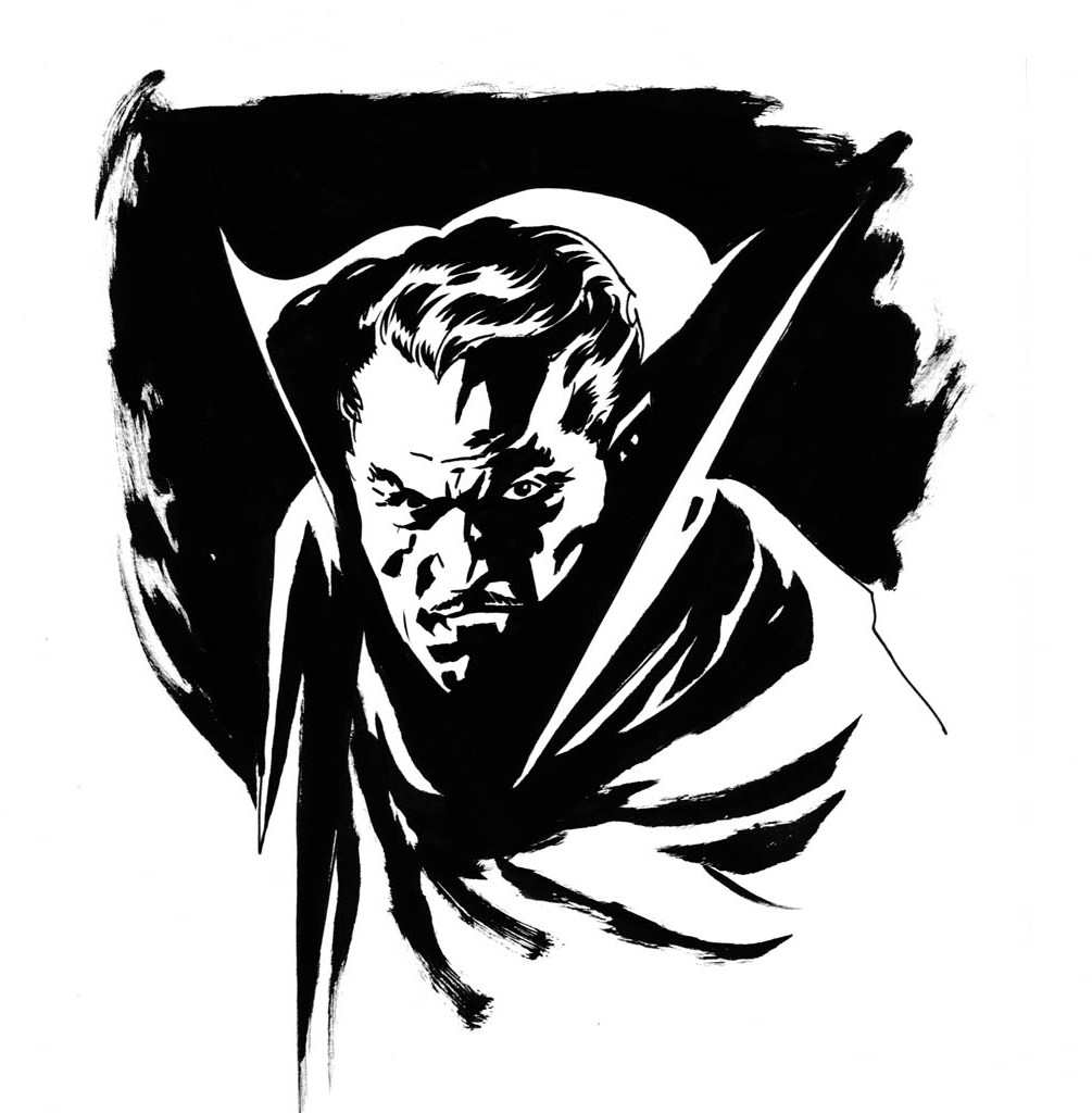 Thecount